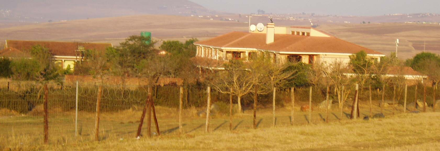 F. Brierley